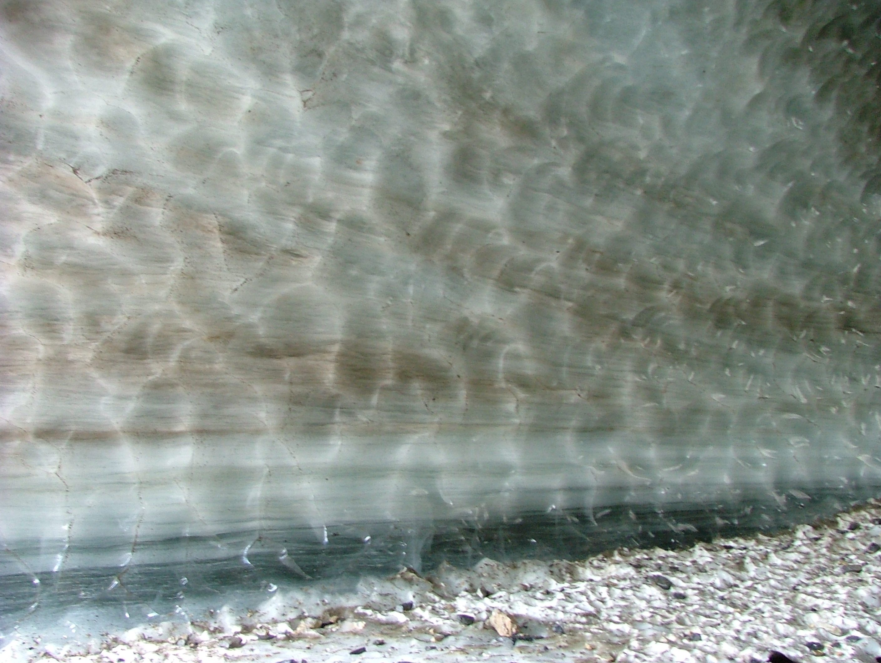 Landscape image; see File:Glacial cross-section.jpg